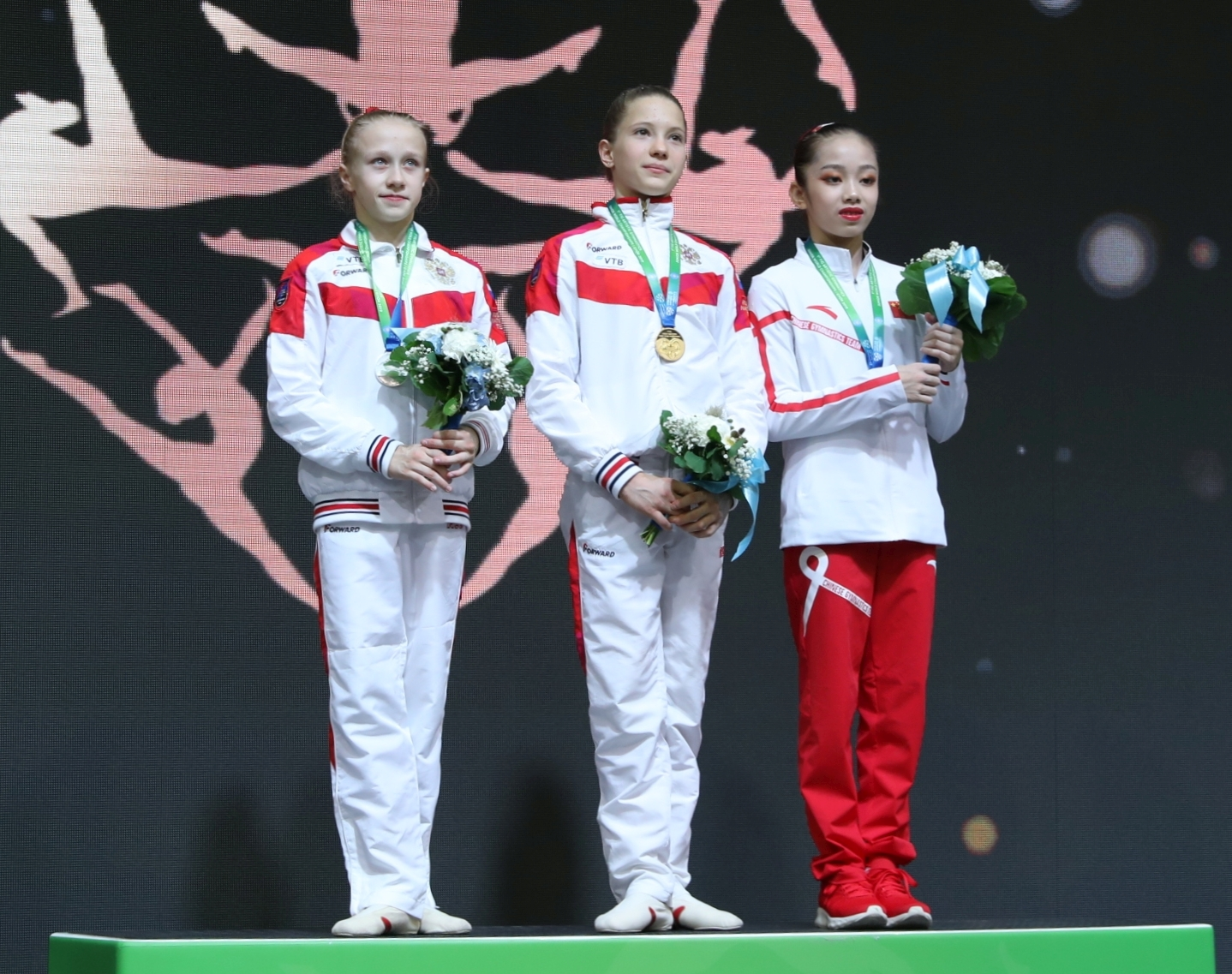 Uneven bars victory ceremony during the girls' apparatus finals at the 1st FIG Artistic Gymnastics Junior World Championships on 29 June 2019 in Győr, Hungary. Depicted: Viktoriia Listunova. Vladislava Urazova. Xiaoyuan Wei.